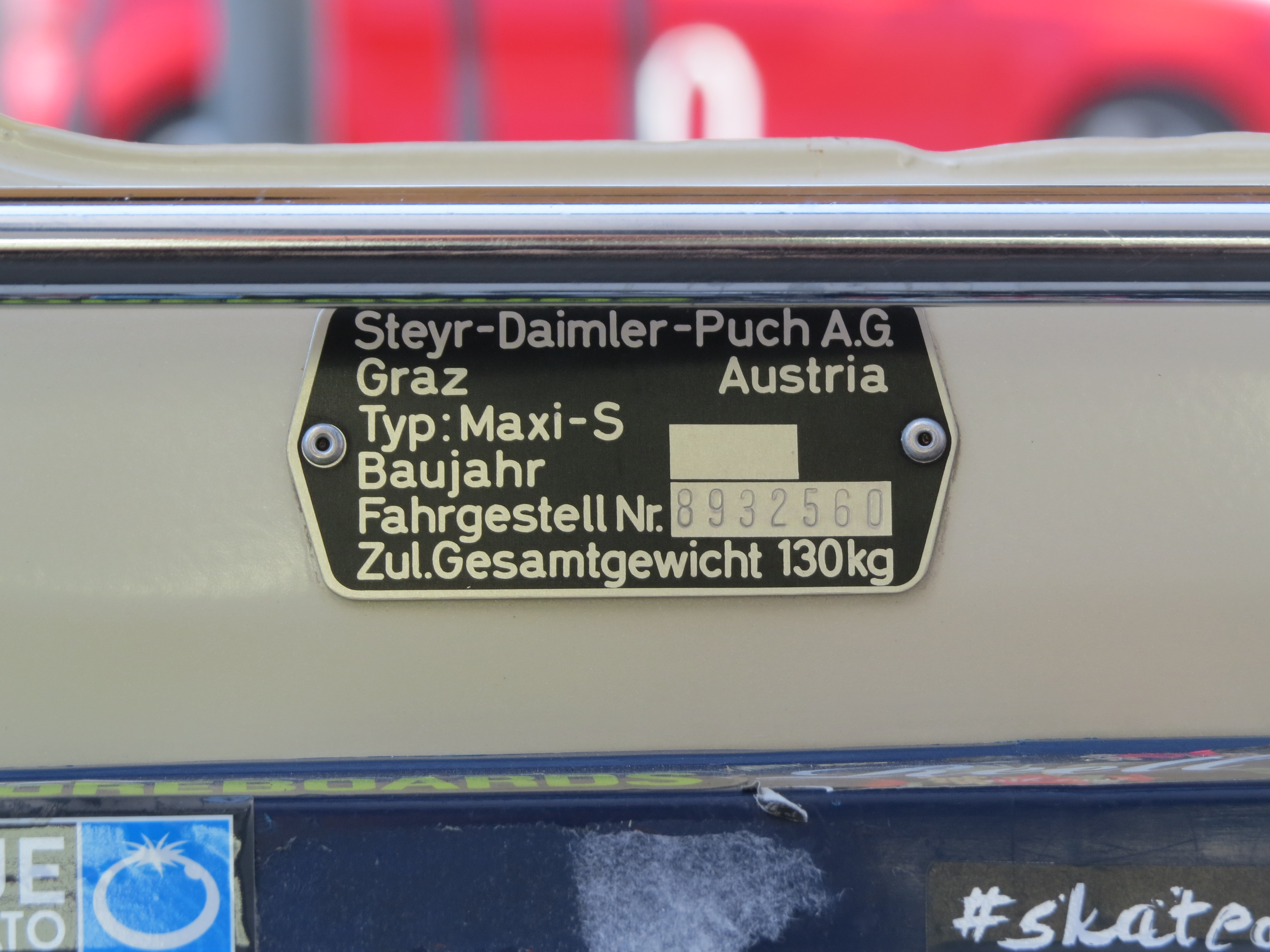 Data plate of Puch Maxi S at Bahnhof Stadt Haag